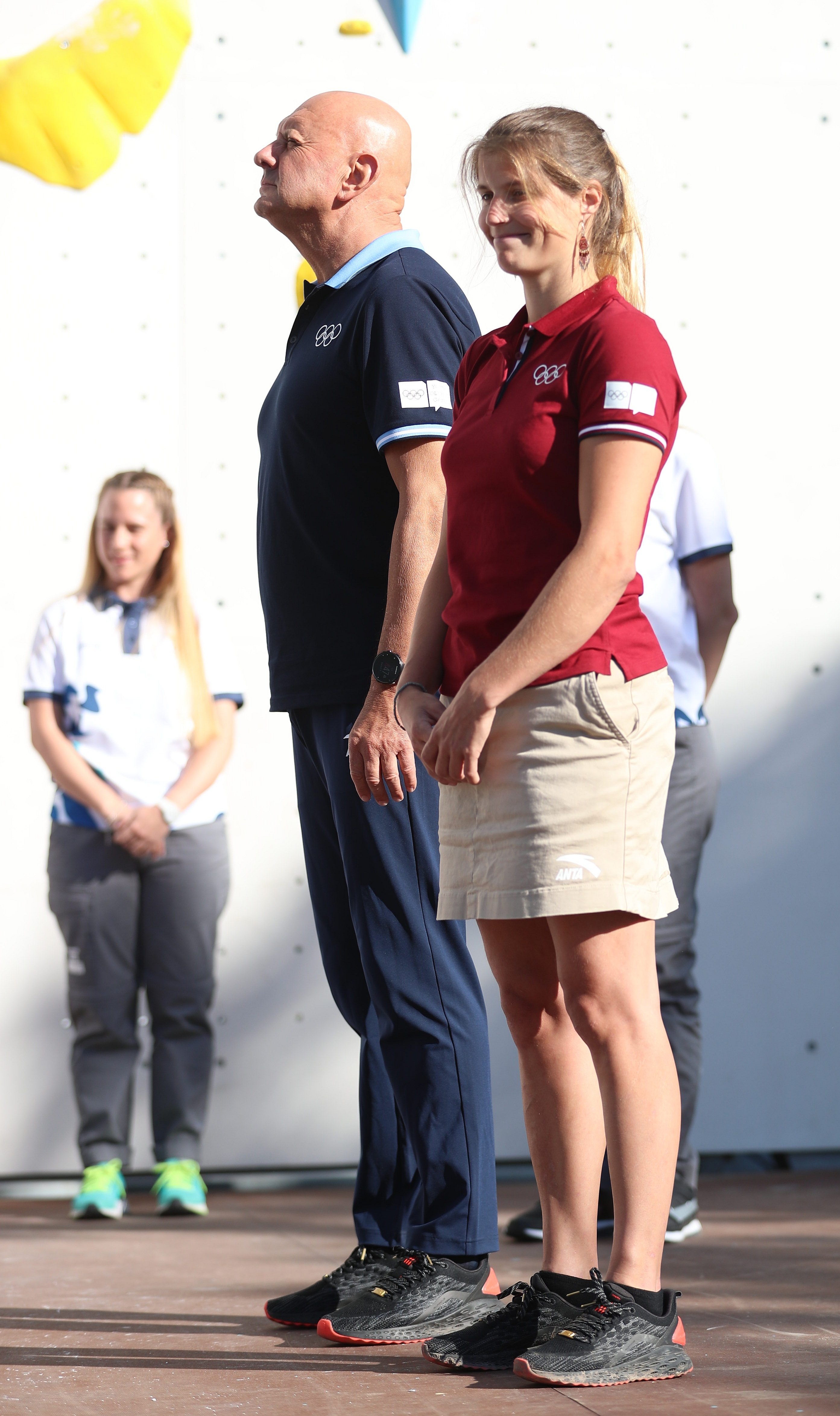 Victory ceremony of the girls' sport climbing at the 2018 Summer Youth Olympics in Buenos Aires on 9 October 2018.